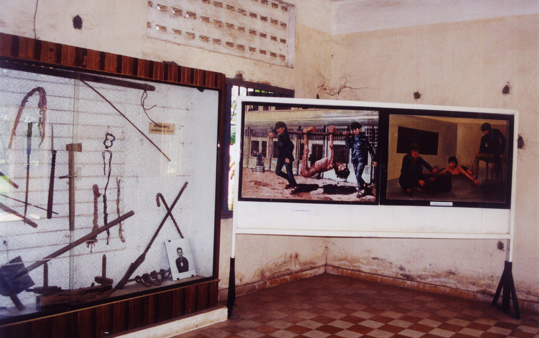 Interior of Tuol Sleng Memorial in Phnom Penh, Cambodia, Torture instruments of the Red Khmer